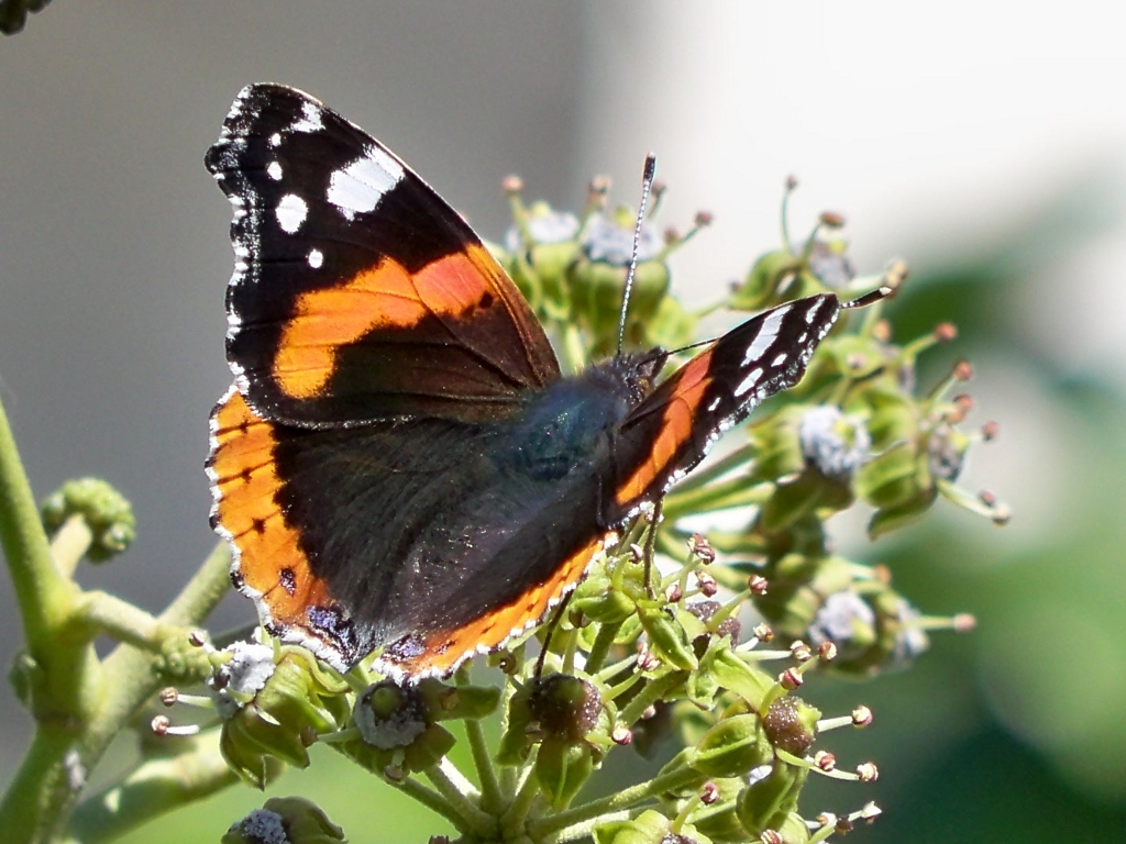 Red Admiral butterfly (Vanessa atalanta).